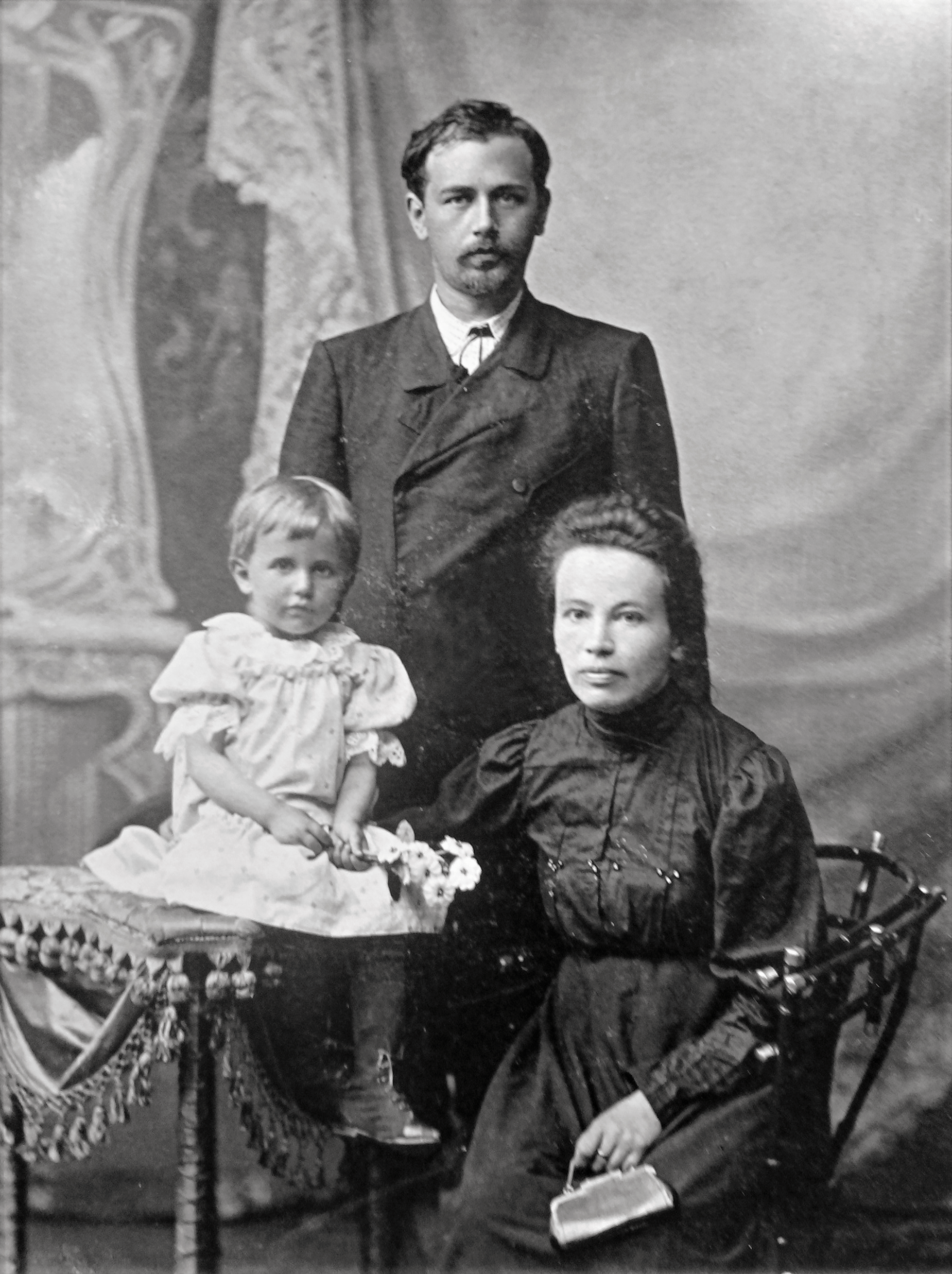 Mykola Leontovych with his wife and daughter